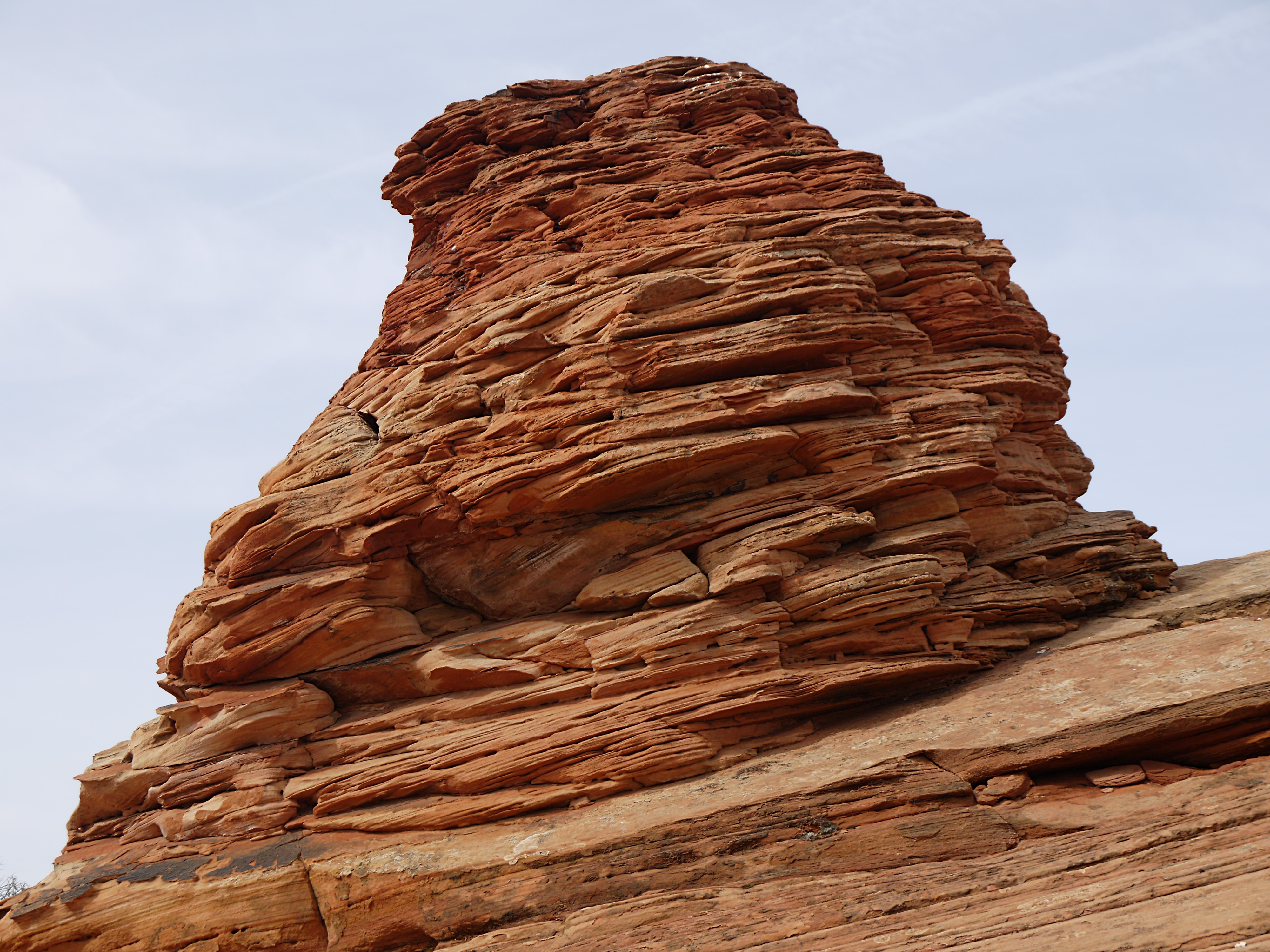 Navajo Sandstone at the Moccasin Mountain Dinosaur Tracksite.